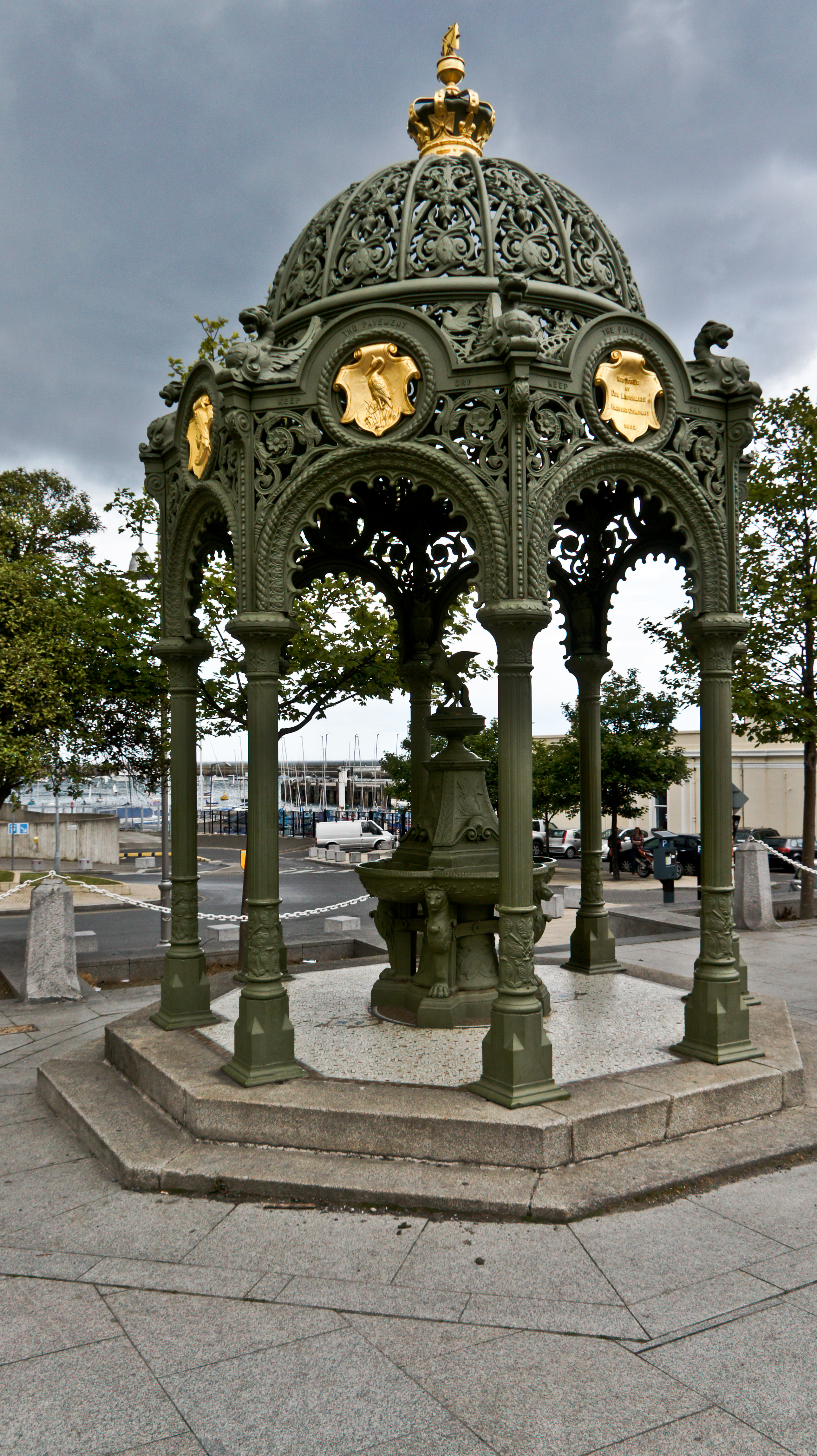 Dun Laoghaire is a small town, Although part of greater Dublin it has its own unique identity.